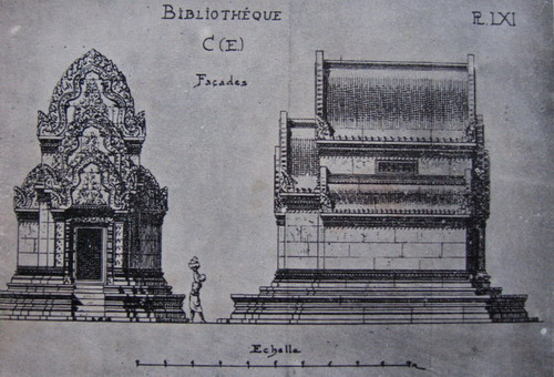 illustration